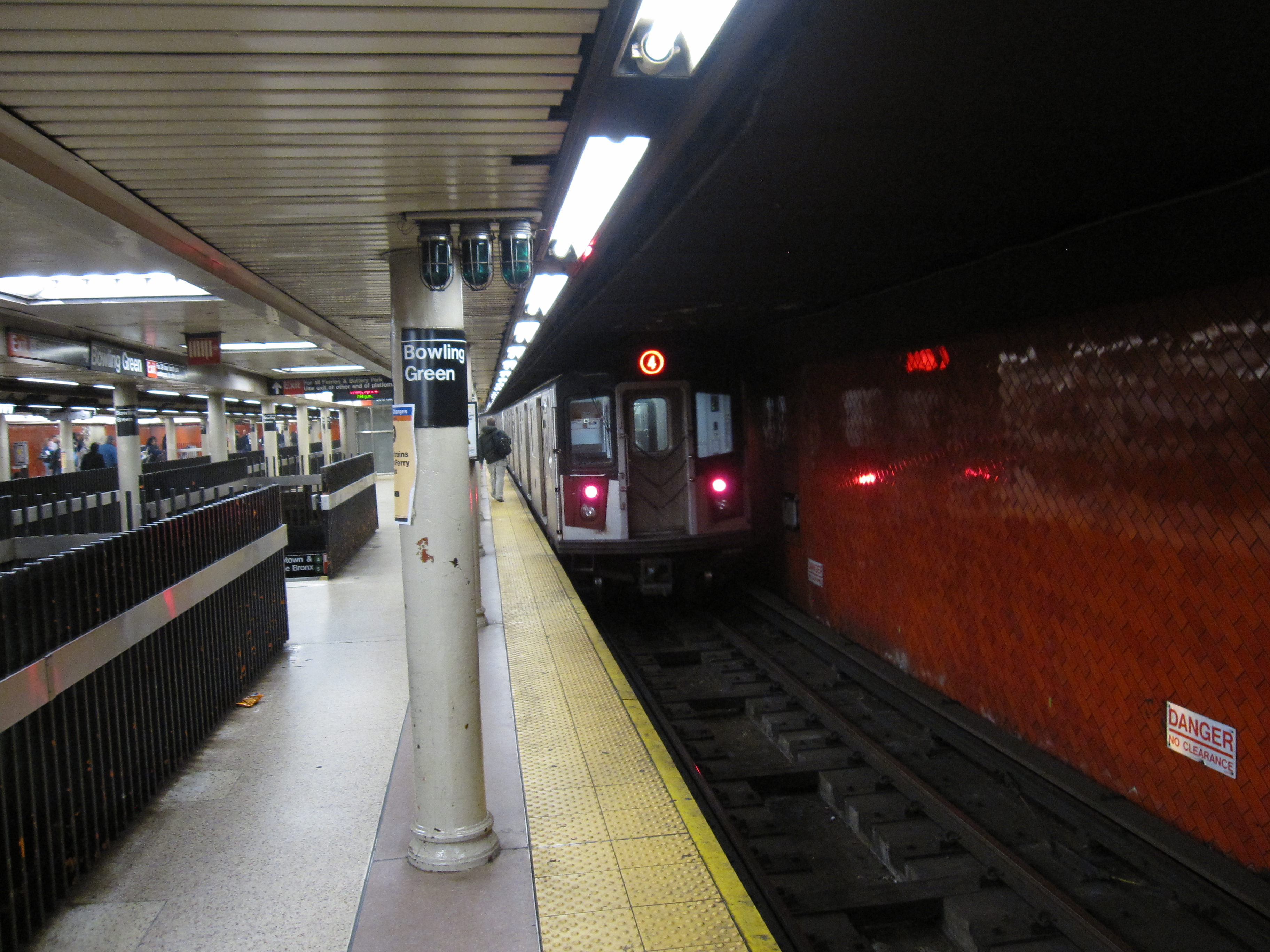 Bowling Green (IRT Lexington Avenue Line)